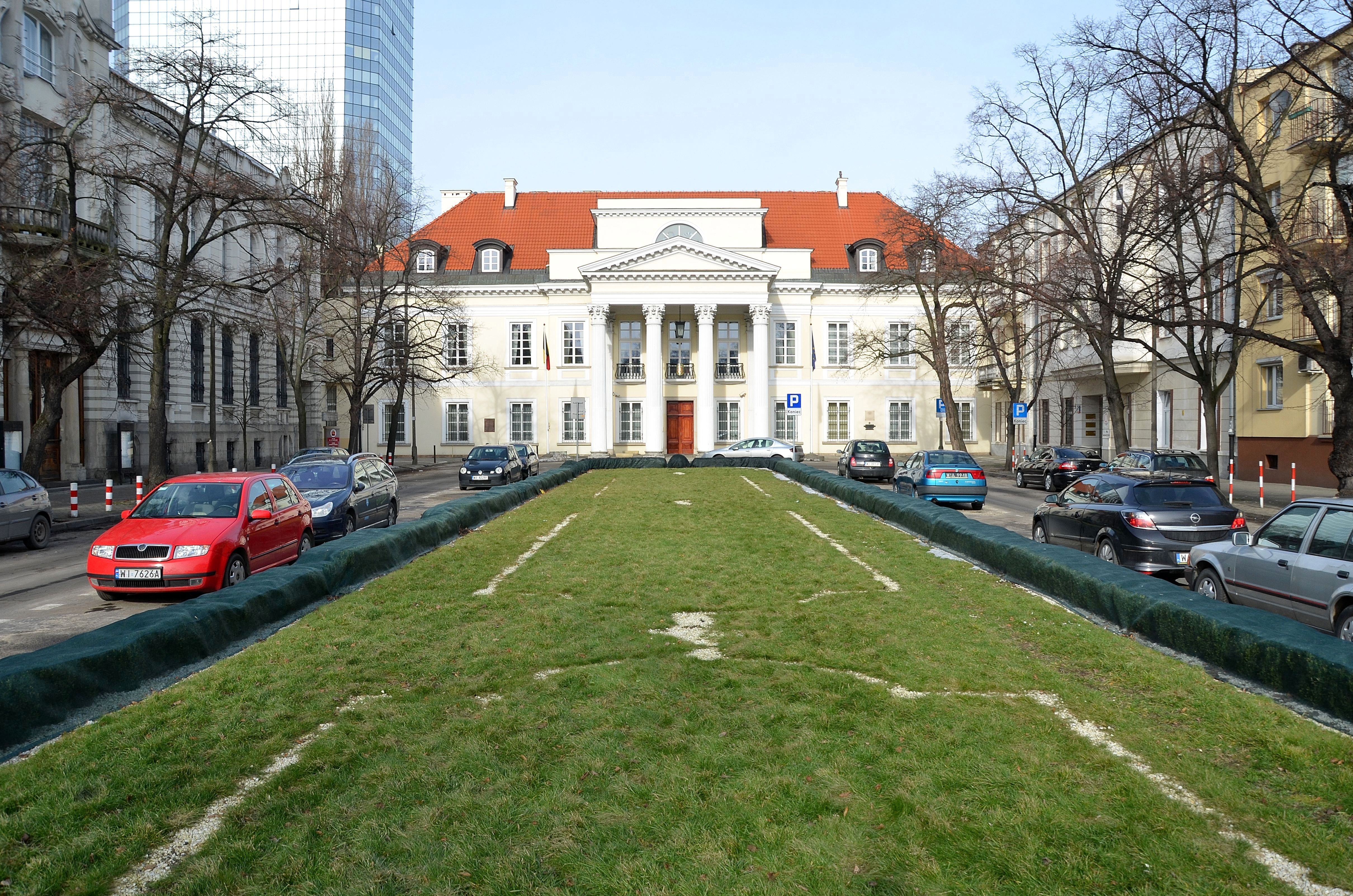 Mniszech Palace in Warsaw